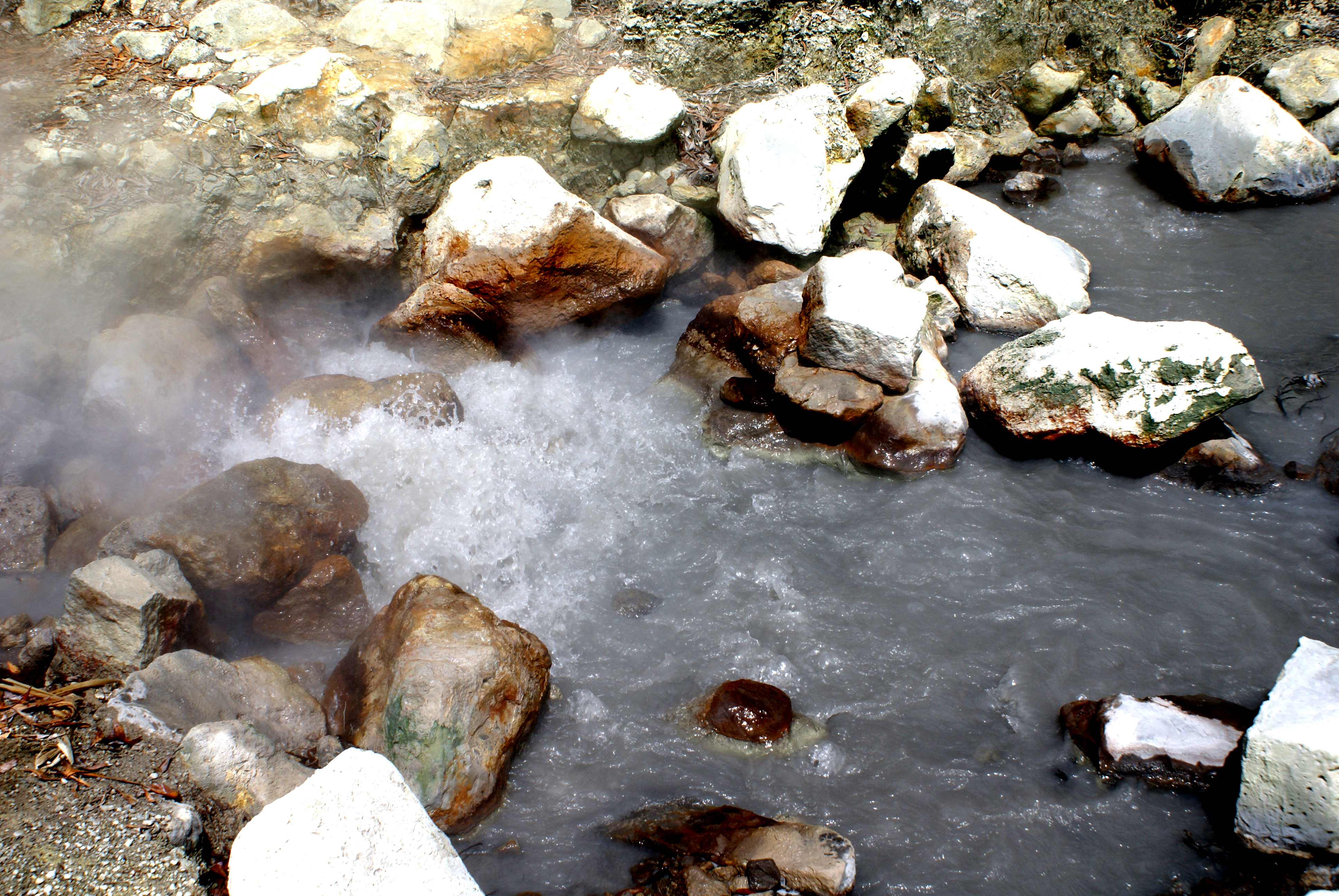 Fumaroles adjacent to Lagoa das Furnas, Furnas, Povoação, São Miguel (Azores), Portugal